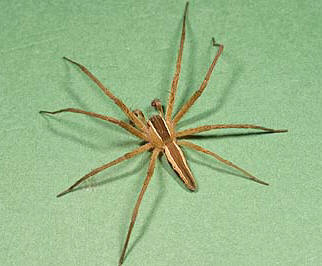 male Perenethis venusta from Okinawa.